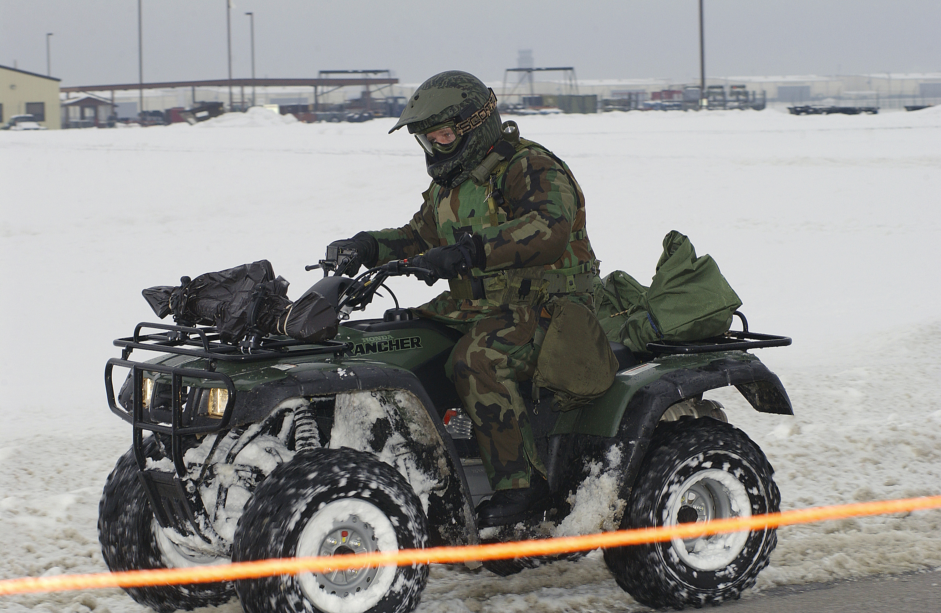 US Air Force (USAF) Master Sergeant (MSGT) Bart Duggan, Security Forces Specialist, 509th Security Forces Squadron (SFS), patrols the outer perimeter security of the snow covered hot cargo area during a Nuclear Surety Inspection at Whiteman Air Force Base (AFB), Missouri (MO). Honda FourTrax Rancher 4x4.